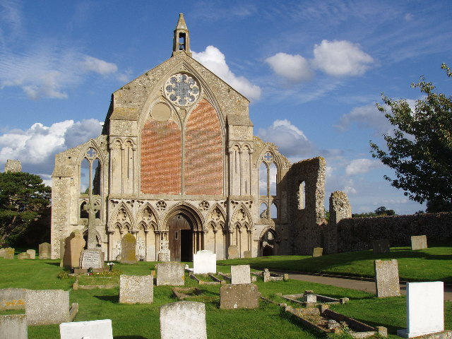 Binham Priory The impressive ruins of this 11th century priory suffered under Henry VIII with the dissolution of the monasteries in 1540 when most of the original building was pulled down.